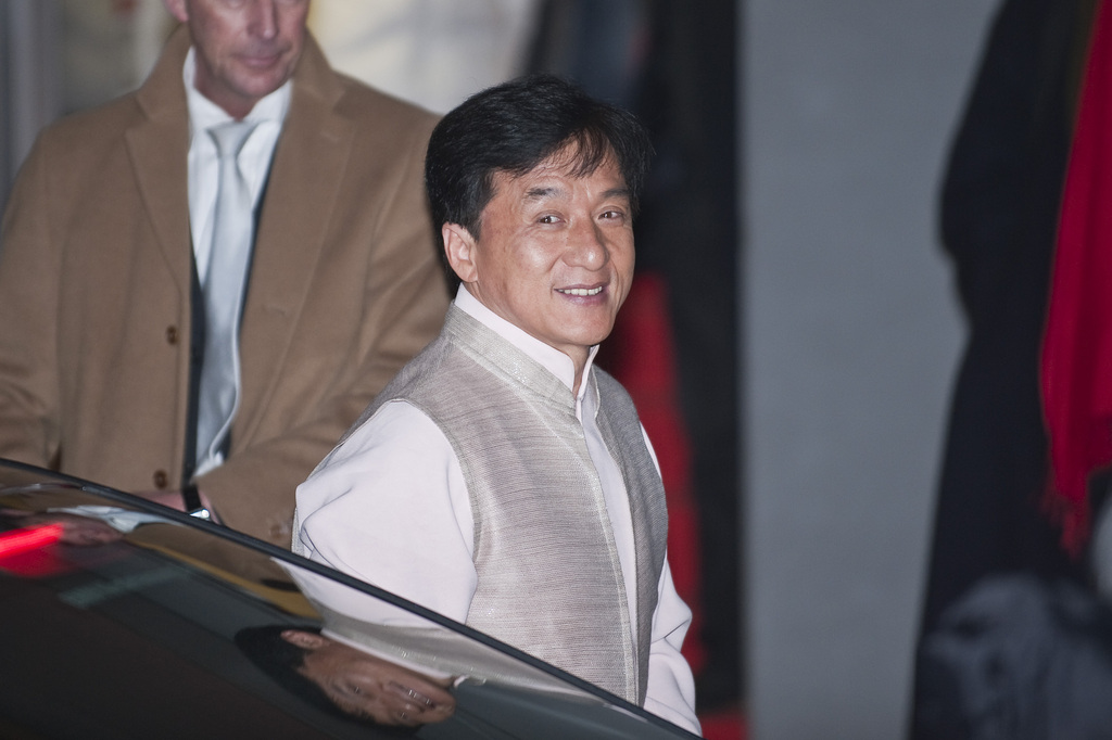 Jackie Chan arriving for the press conference DA BING XIAO JIANG (Little Big Soldier).